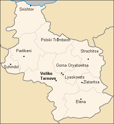 A map of the municipalities of Veliko Tarnovo Province in Bulgaria made by Lubomir Taushanov from the Bulgarian Wikipedia